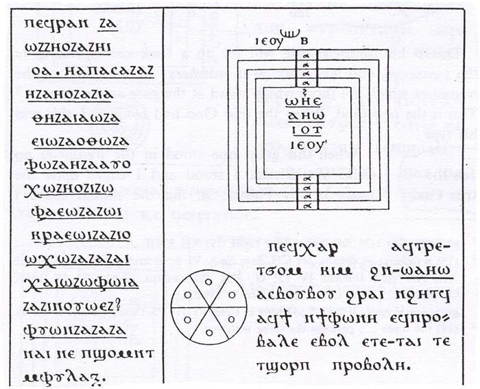 Magical Diagram from Books of Jeu